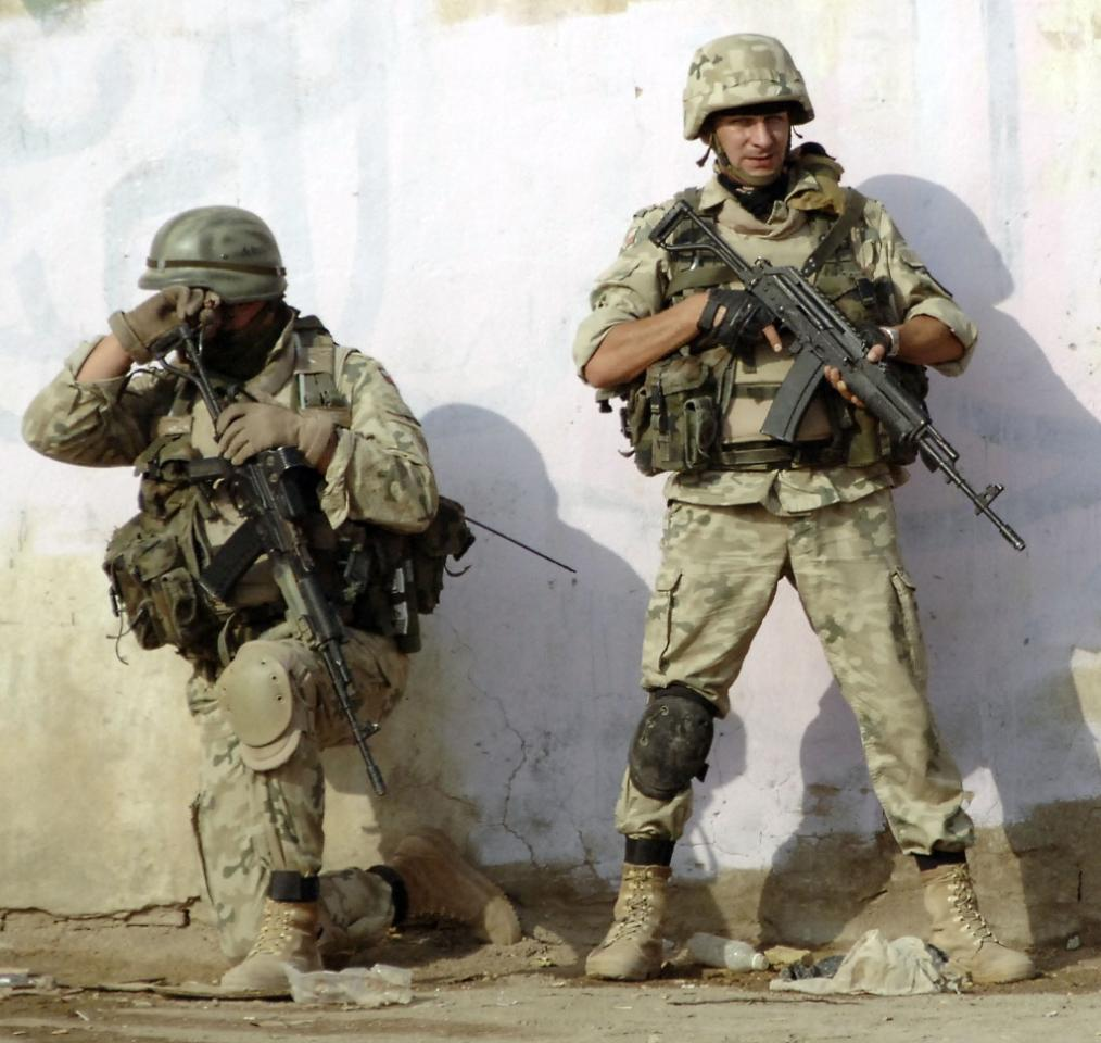 Polish soldiers pull security in a street in Ad Diwaniyah on October 8, 2007. (U.S. Army photo by Spc. Gabriel Reza) Since it's US Army photo it is public domain.